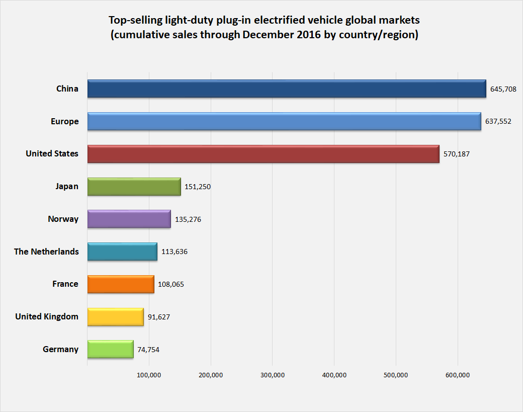 Top selling markets (countries/region) in terms of cumulative light-duty plug-in vehicle (cars and utility vans) sales at the end of 2016. My own work, data taken from and final figure for Japan from IEA. (HybridCARs graph is credited to me)